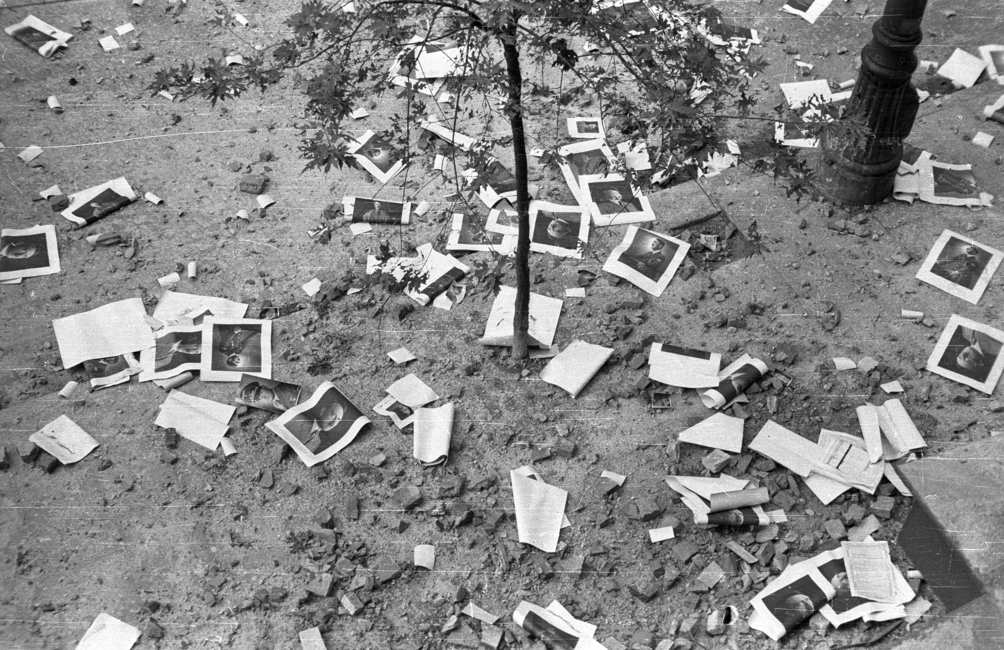 Warsaw Uprising: Photos of Hitler scattered on Marszałkowska street near Sienkiewicza street.